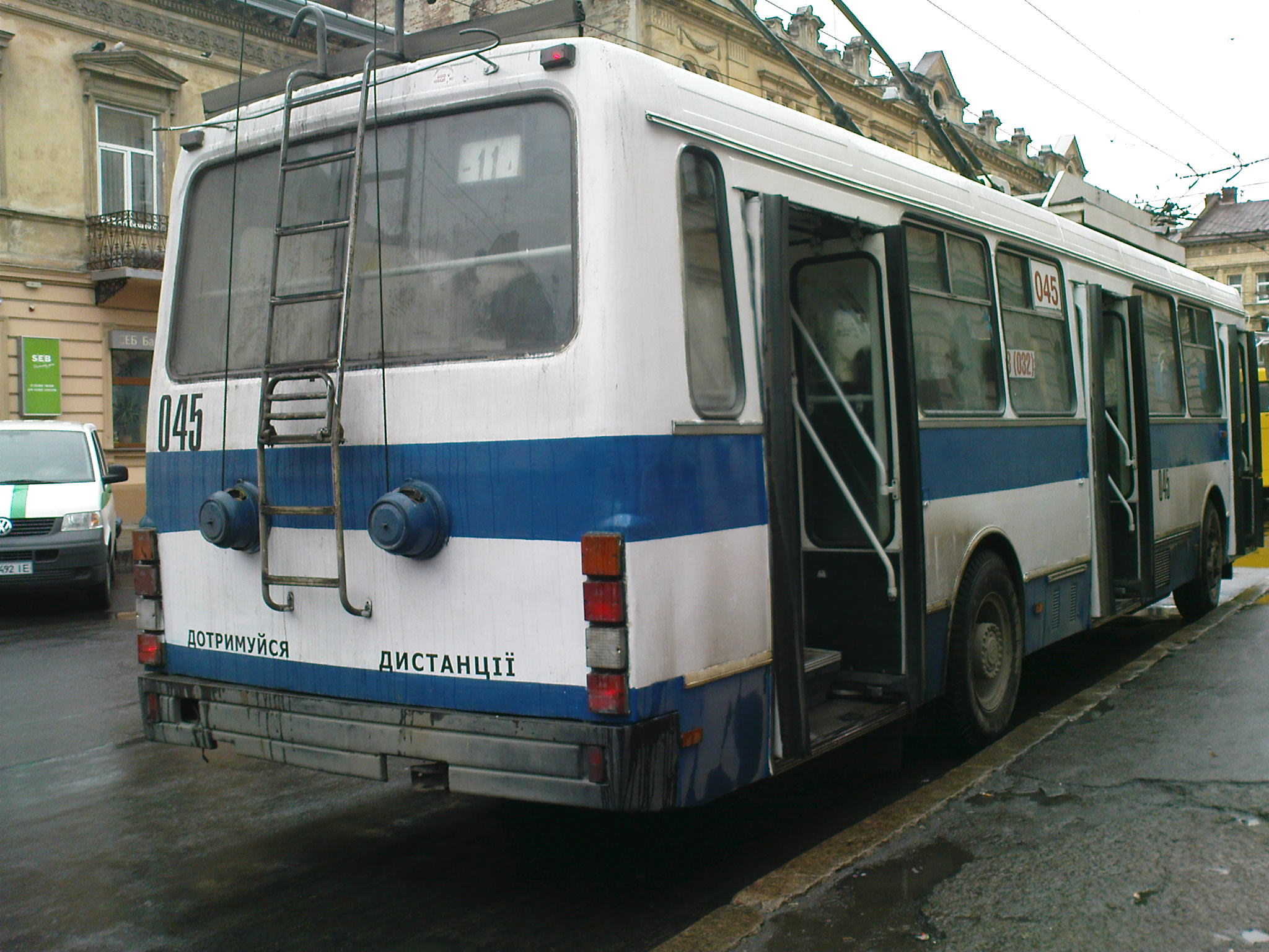 LAZ 52522 trolleybus (#045) in Lviv, Ukraine. Built 1997, ЛКП Львівелектротранс operator.